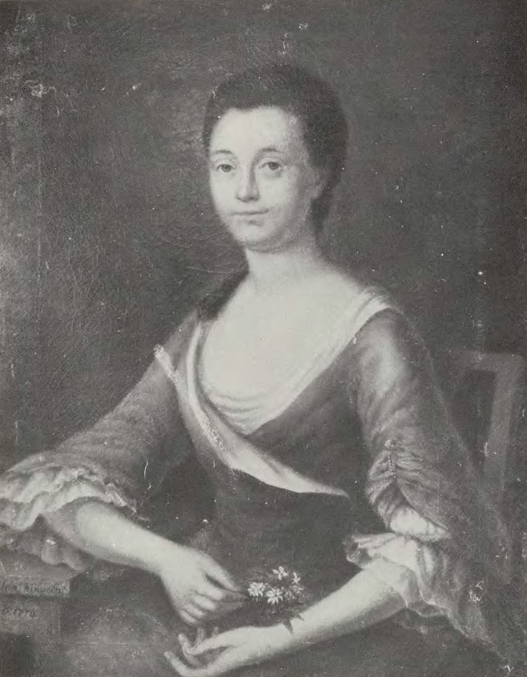 1937 November 27-1938 February